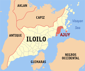 Map of Iloilo showing the location of Ajuy